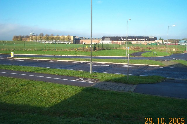 Leavesden Studios. Leavseden Studios occupies the site and buildings of the former Leavesden Aerodrome. The land was requisitioned by the Ministry of Supply in 1940 from Watford Corporation, and the site was developed as a wartime aircraft manufacturing facility and airfield, with two main factory complexes and a 1000 yard long runway. Rolls-Royce continued to manufacture helicopter engines at the factory, and the airfield remained open for private leisure flying, until 1994. The site was then sold and converted into its current use. Scenes from various James Bond, Star Wars, and Harry Potter films have subsequently been filmed there. The site occupies most of TL0900 and this view was taken from Aerodrome Way looking northwestwards. The former airfield control tower is visible over the trees at the left end of the left building.